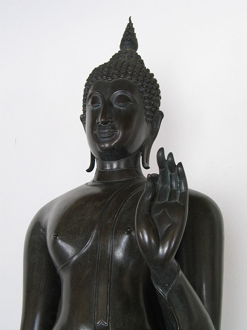 Buddha, "Halting the sandalwood image", Wat Benchamabopit, Bangkok, Thailand